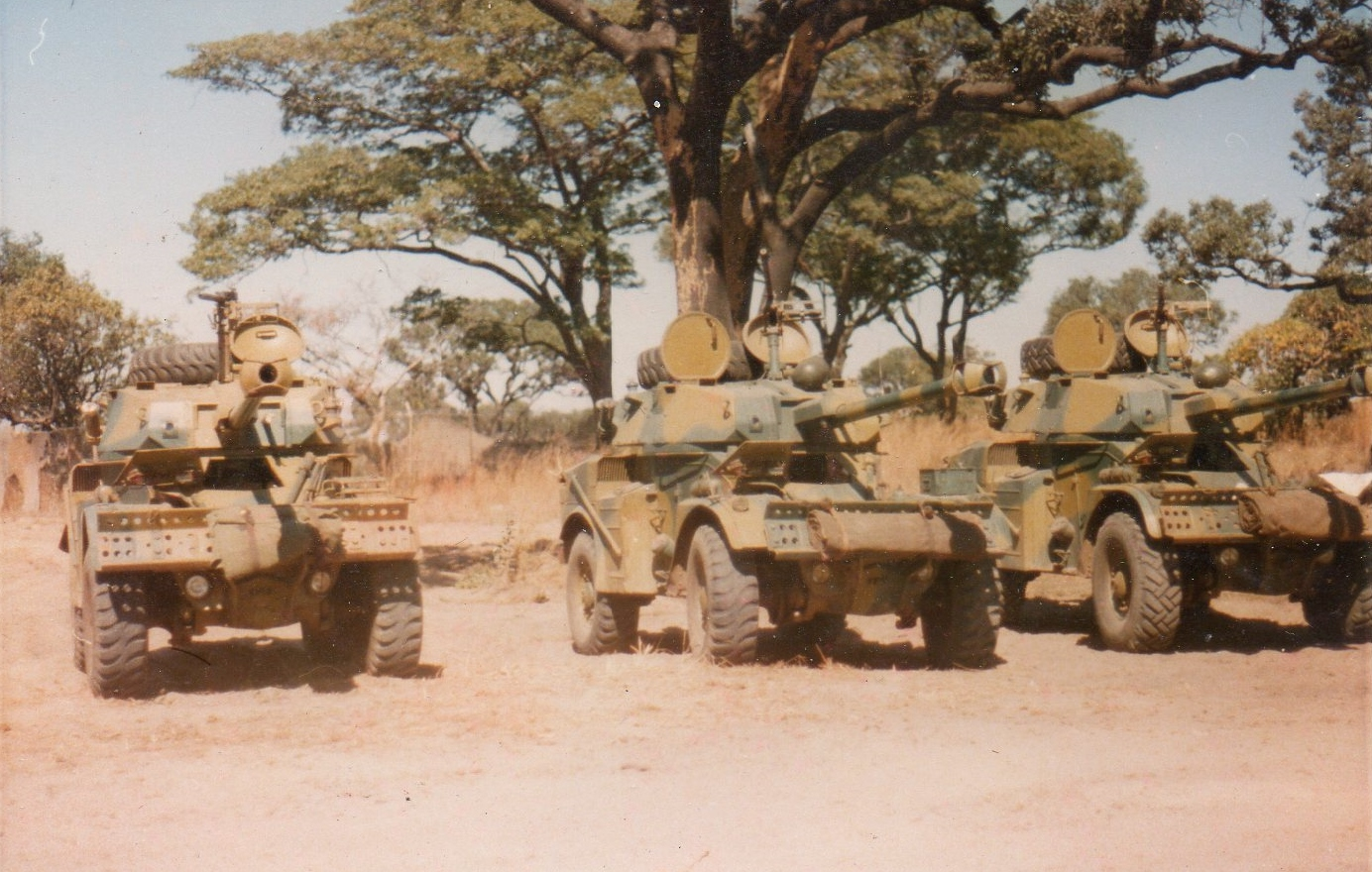 Eland armoured cars of the Rhodesian Armoured Corps parked at Inkomo Barracks.